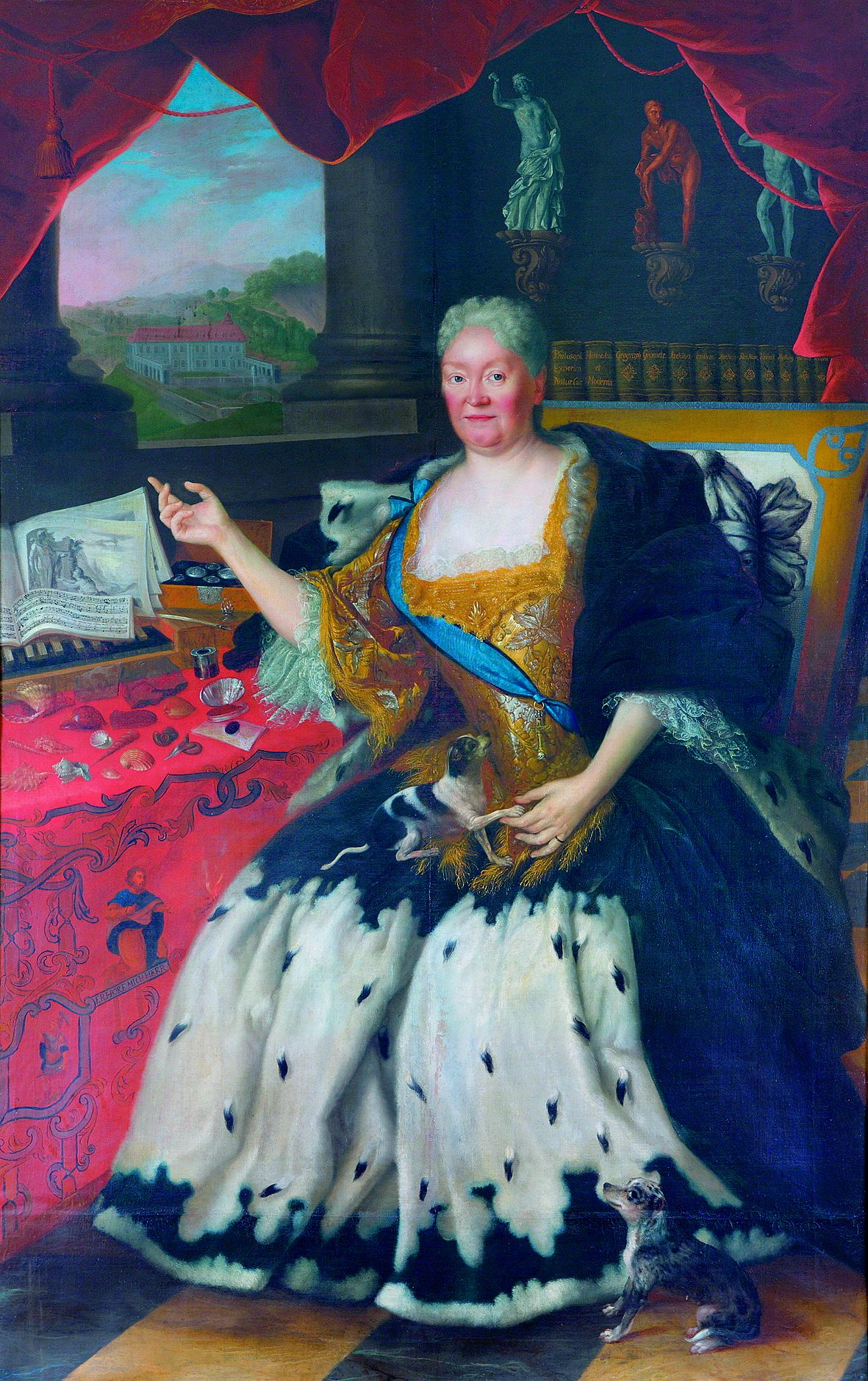 Portrait of Elisabeth of Saxe-Meiningen (1681-1766), Abbess of Gandersheim